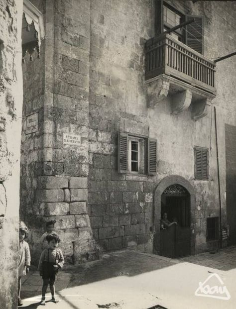 Berga tal-Italja, il-Birgu (c. 1935) by the Works Dept. Drawing Office